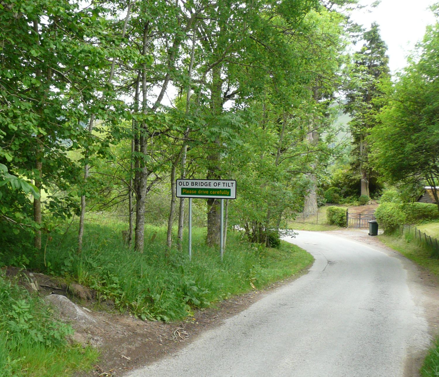 The welcome sign for Old Bridge of Tilt in Scotland.